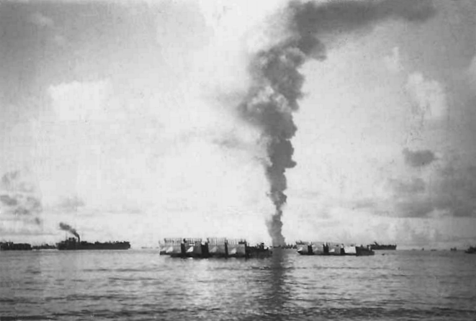 USS Mississinewa (AO-59) burning, taken from the USS Cacapon